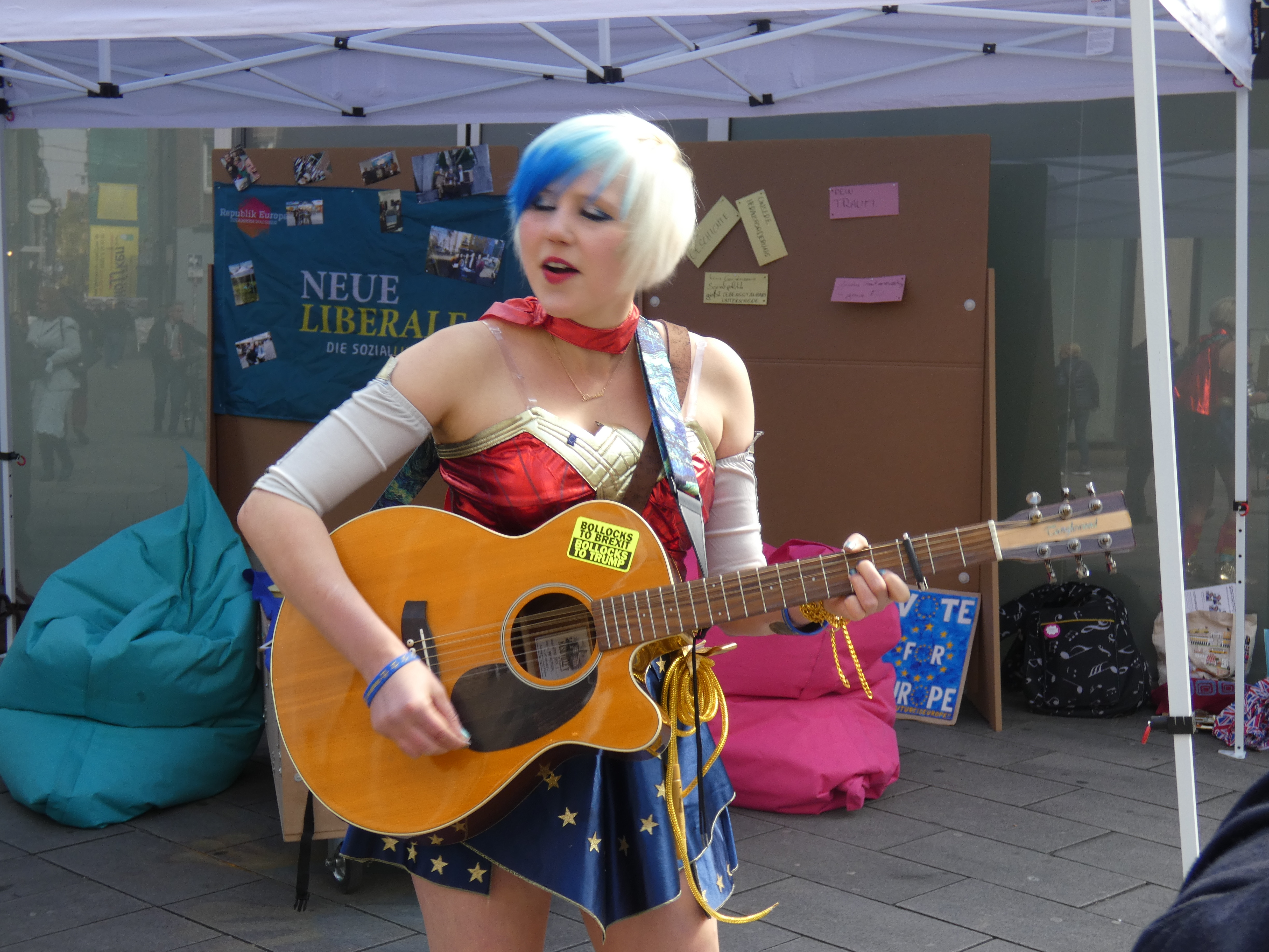 Madeleina Kay as EUsupergirl (EUwonderwomen) in Düsseldorf at a European Election Campaign Event of Neue Liberale with contender Chris Pyak